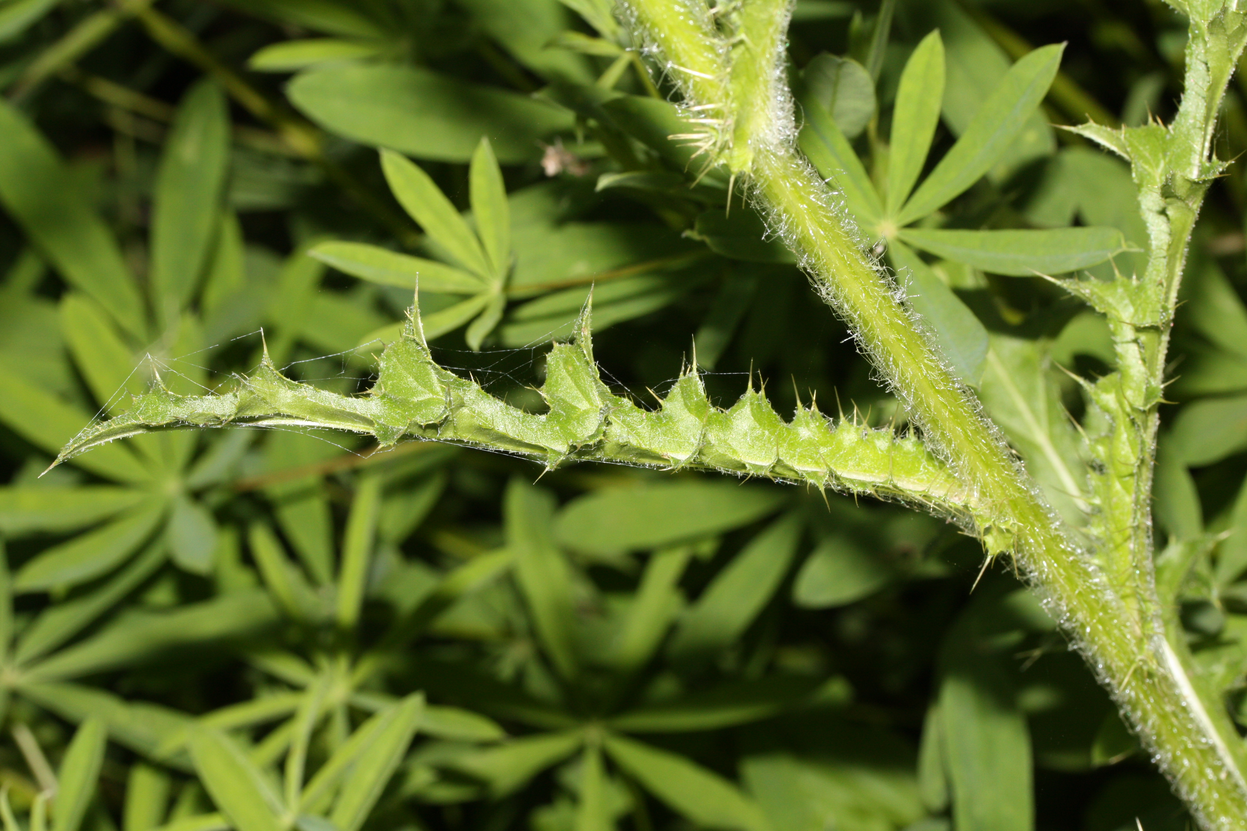 Edible Thistle, Indian Thistle